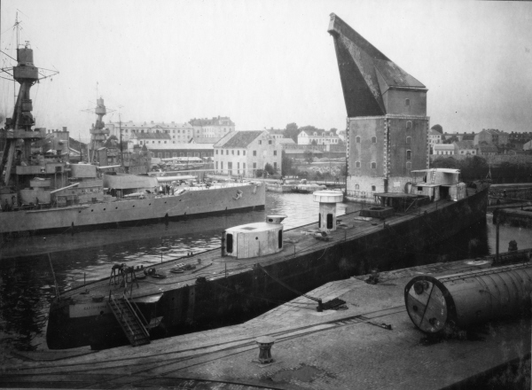 The Swedish destroyer HMS Karlskrona being built.